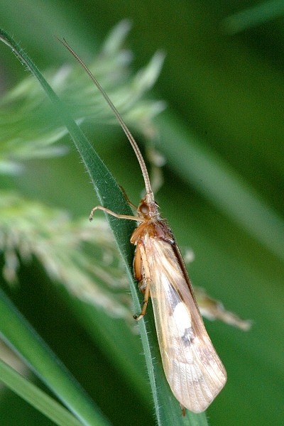 Picture taken in Commanster, Belgian High Ardennes . Species: Limnephilus rhombicus